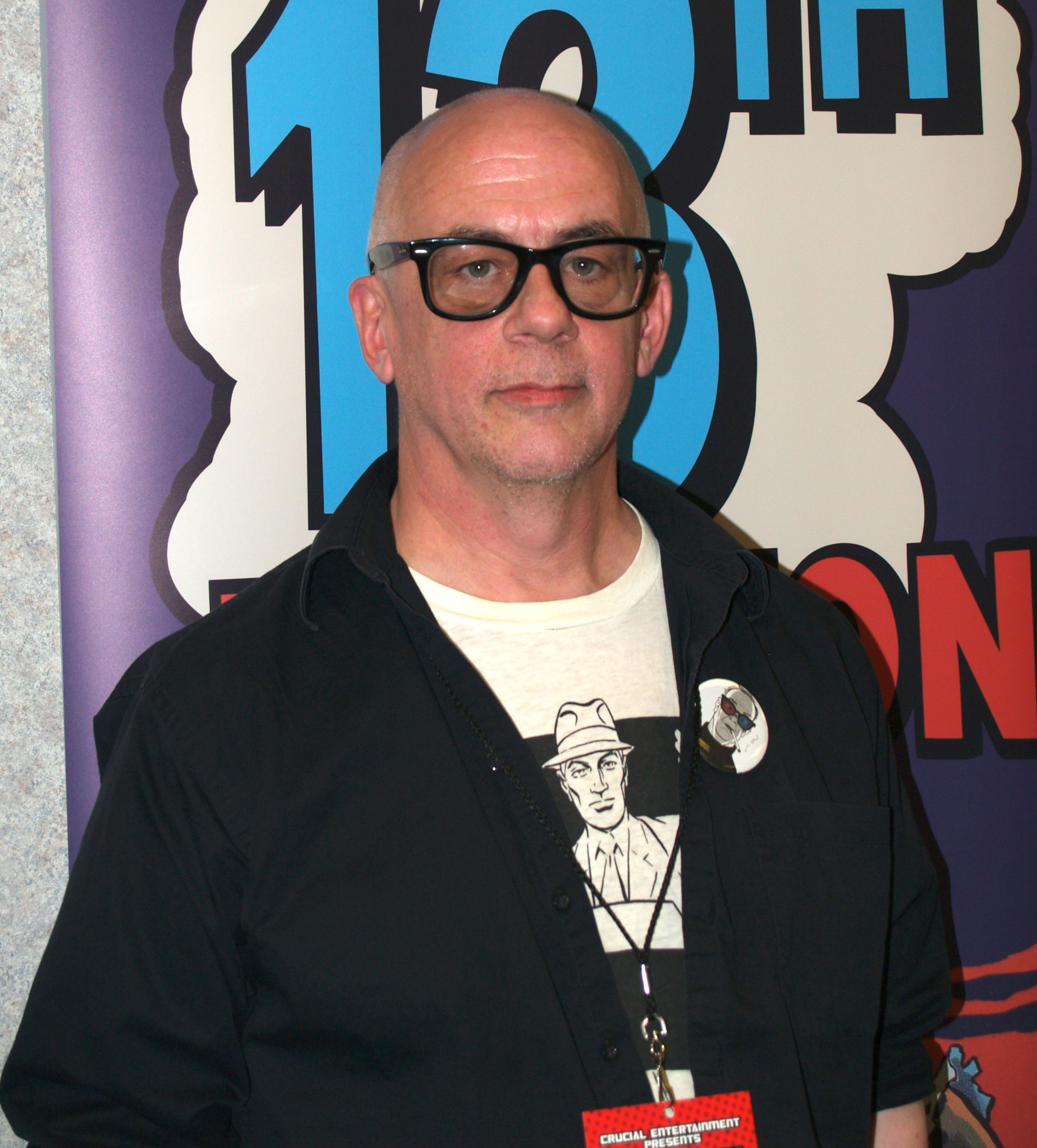 Comics creator/editor Mort Todd at the Meadowlands Exposition Center in Secaucus, New Jersey on April 16, 2016, Day 1 of the 2016 East Coast Comicon. This photo was created by Luigi Novi. It is not in the public domain, and use of this file outside of the licensing terms is a copyright violation.